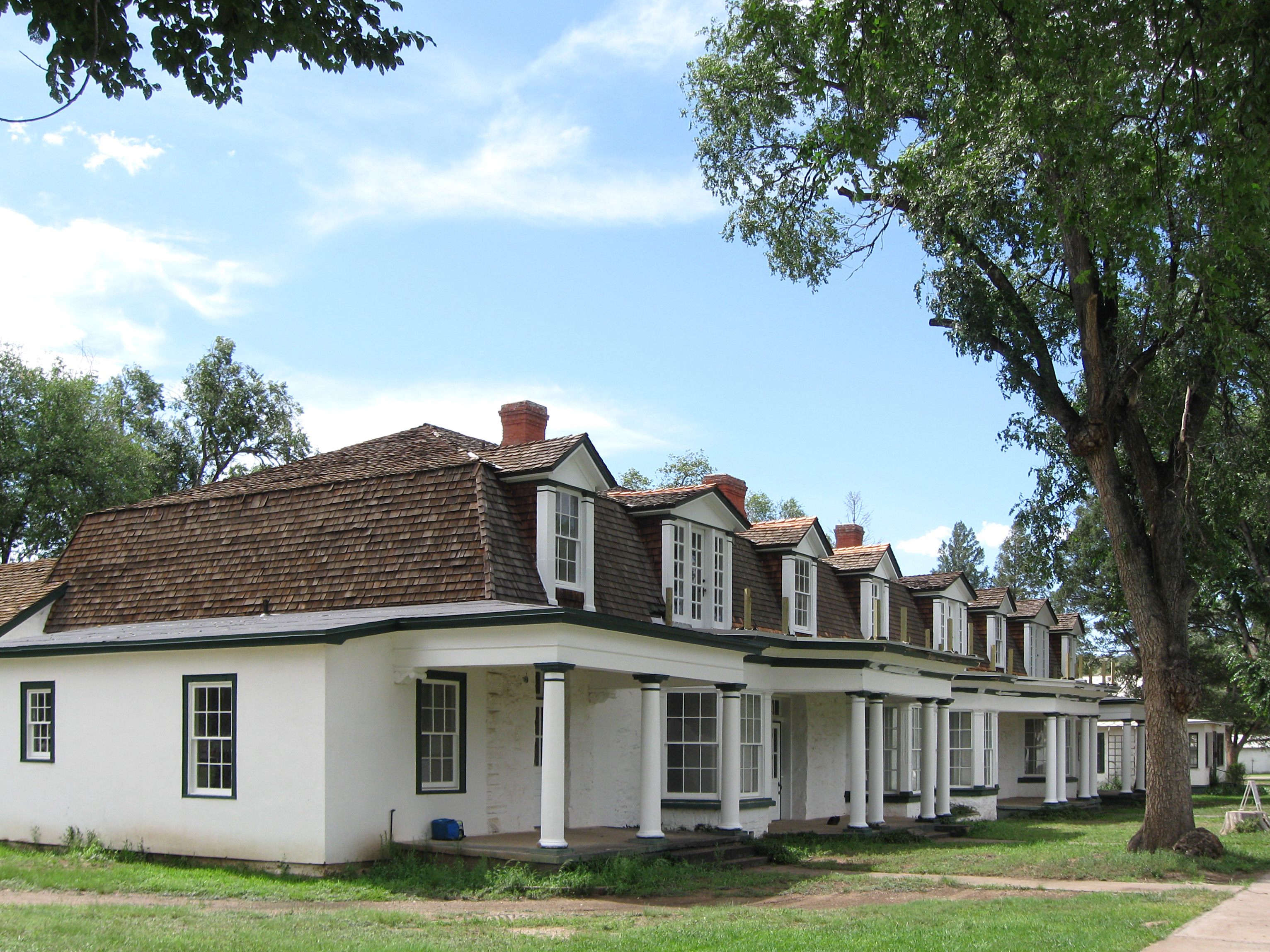 Restored Officers Quarters building at Fort Stanton in New Mexico.